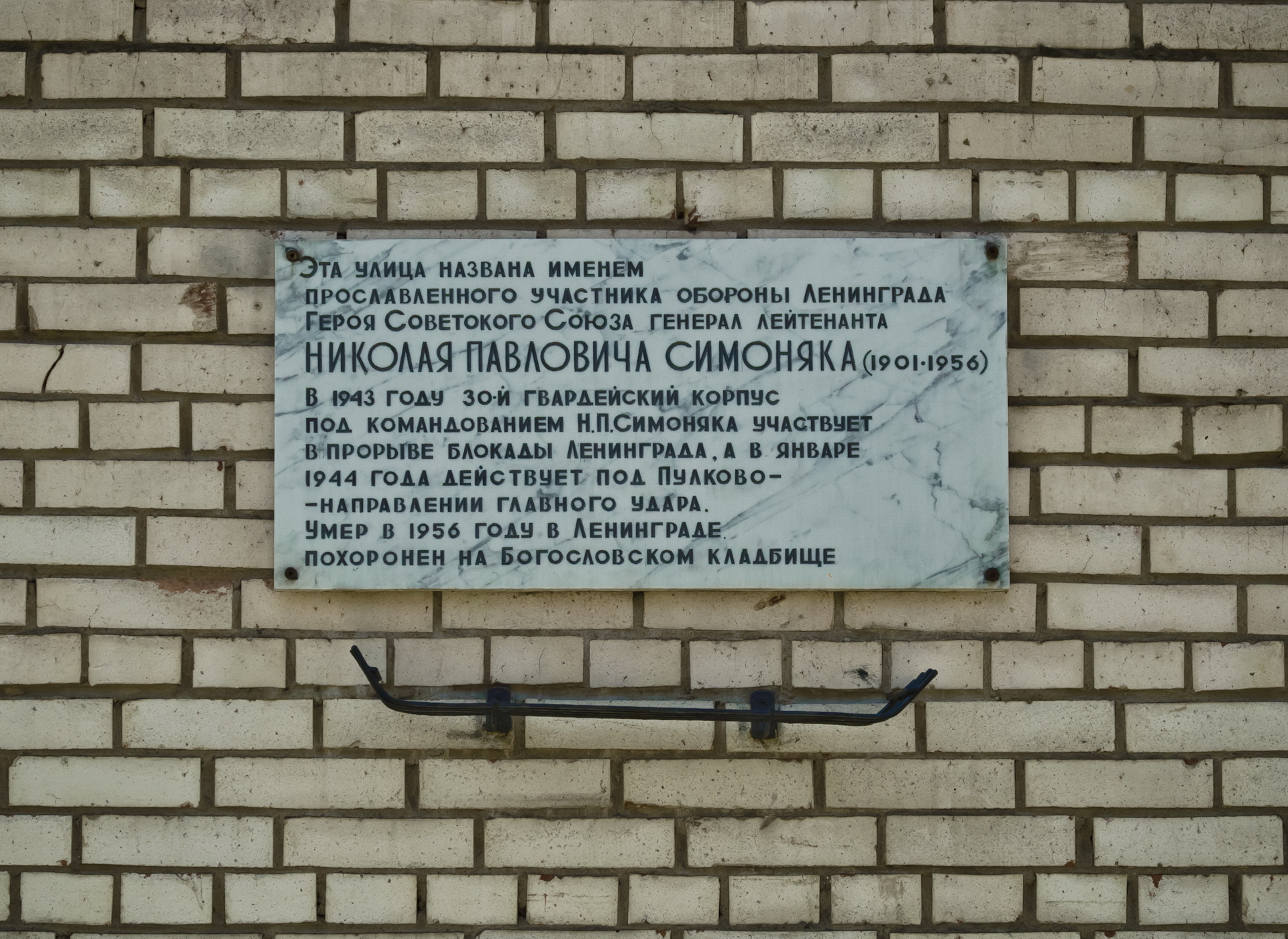 Saint Petersburg, Generala Symonyaka street, memorial board